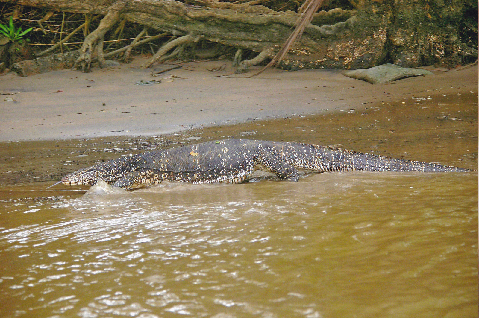 Bengal monitor lizard in Negombo Sri Lanka